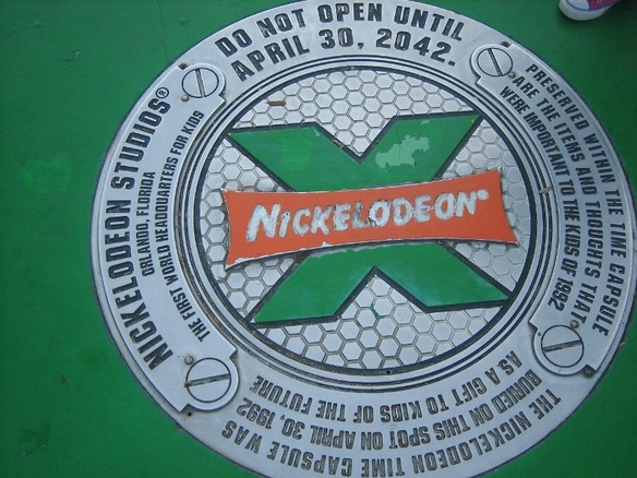 The old Nickelodeon Time Capsule at Nickelodeon Studios in Orlando, Florida.